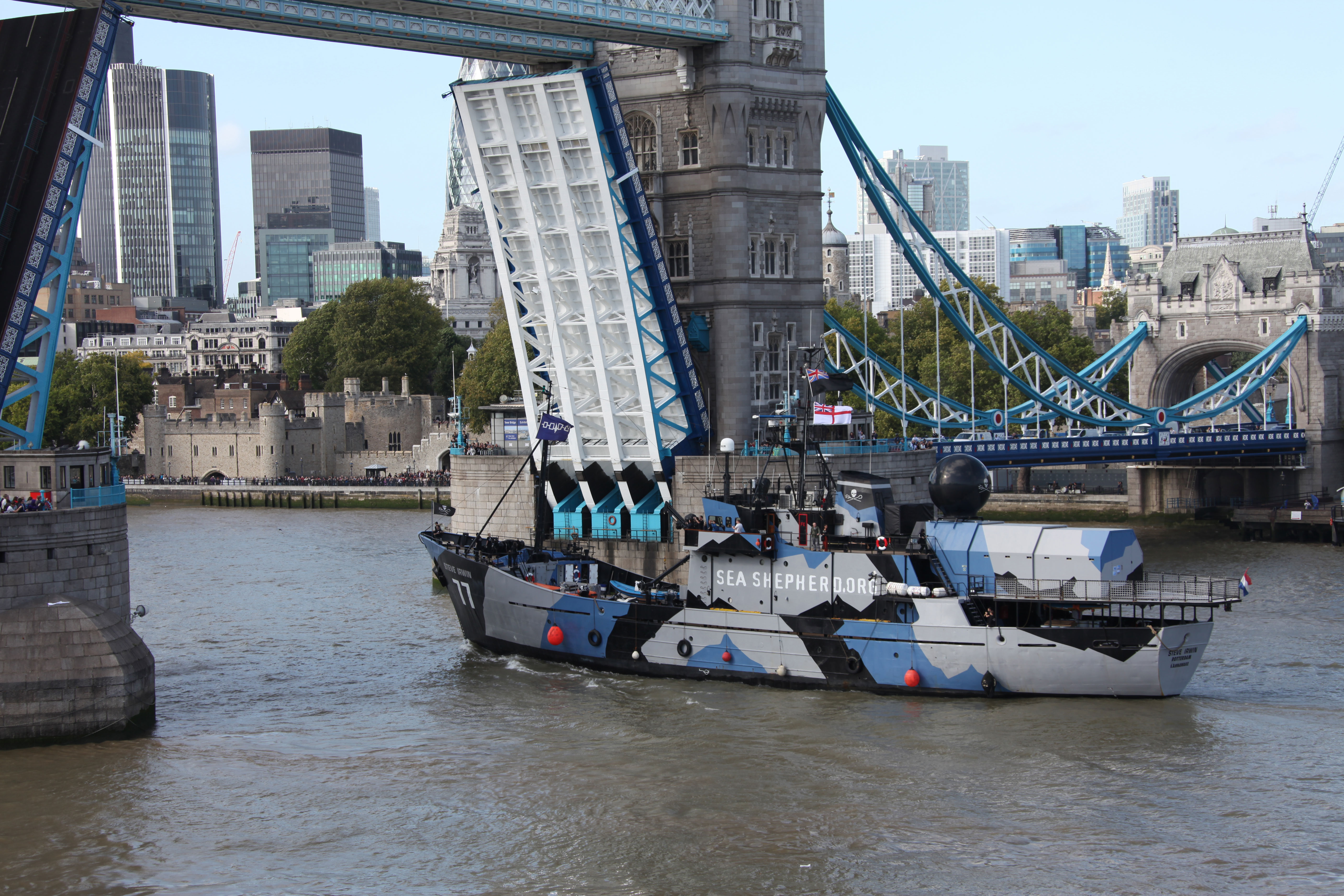 The MY Steve Irwin going up river through Tower Bridge London 12 September 2011